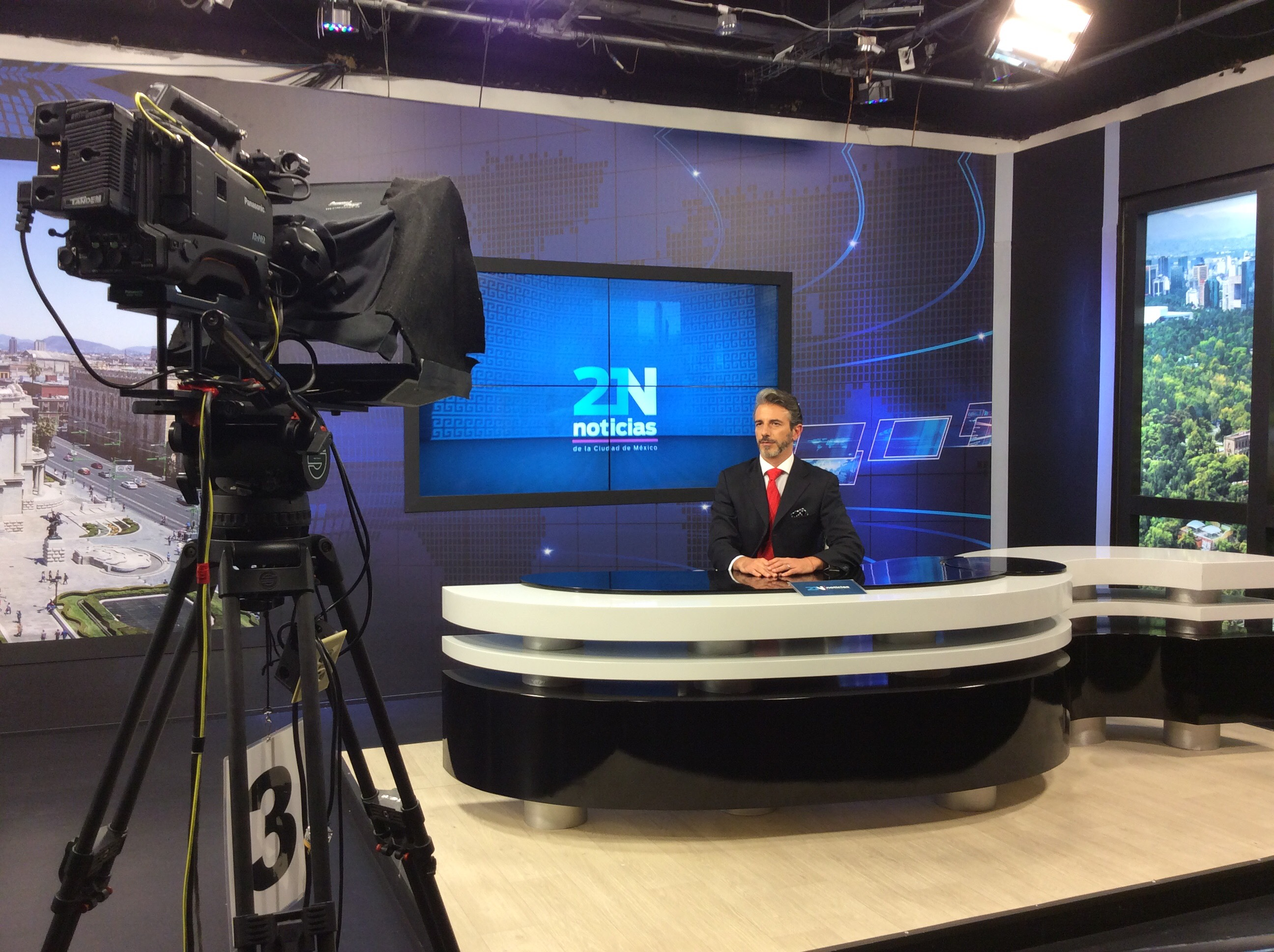 Juan Becerra Anchorman in México